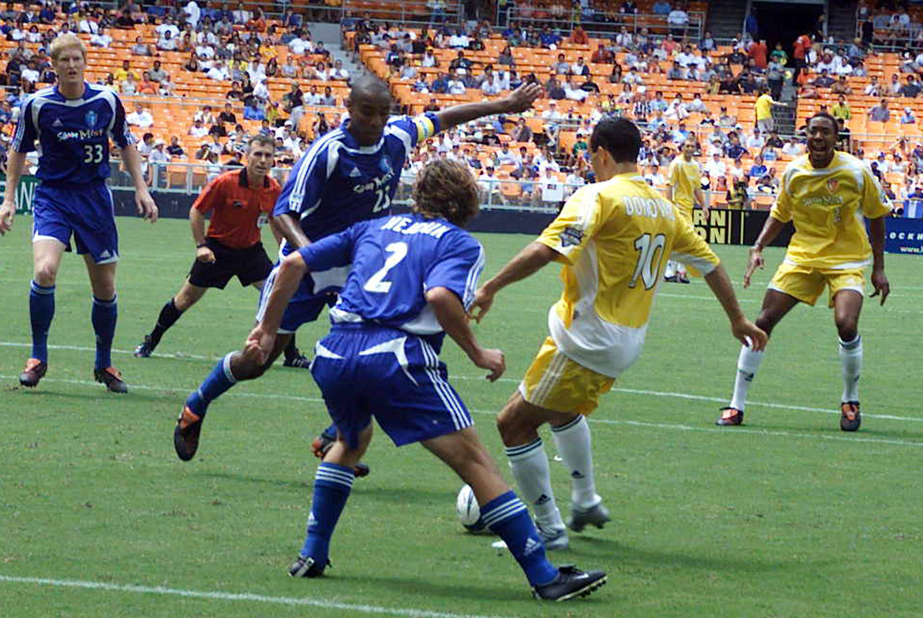 From the 2004 Major League All Star Game. L to R: Jim Curtin, Eddie Pope, Frankie Hejduk, Landon Donovan, Corey Gibbs. Original description: Landon Donovan, in the yellow #10 jersey, makes a play for the ball in the first half of the 2004 Sierra Mist Major League Soccer All-Star game. Donovan has a heightened awareness of what Soldiers go through; his older brother was in the Army.